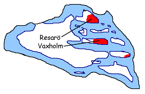 Details of Vaxholm municipality in Sweden